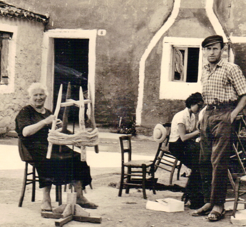 Mending a fisherman's net Caorle (Italy) 1958